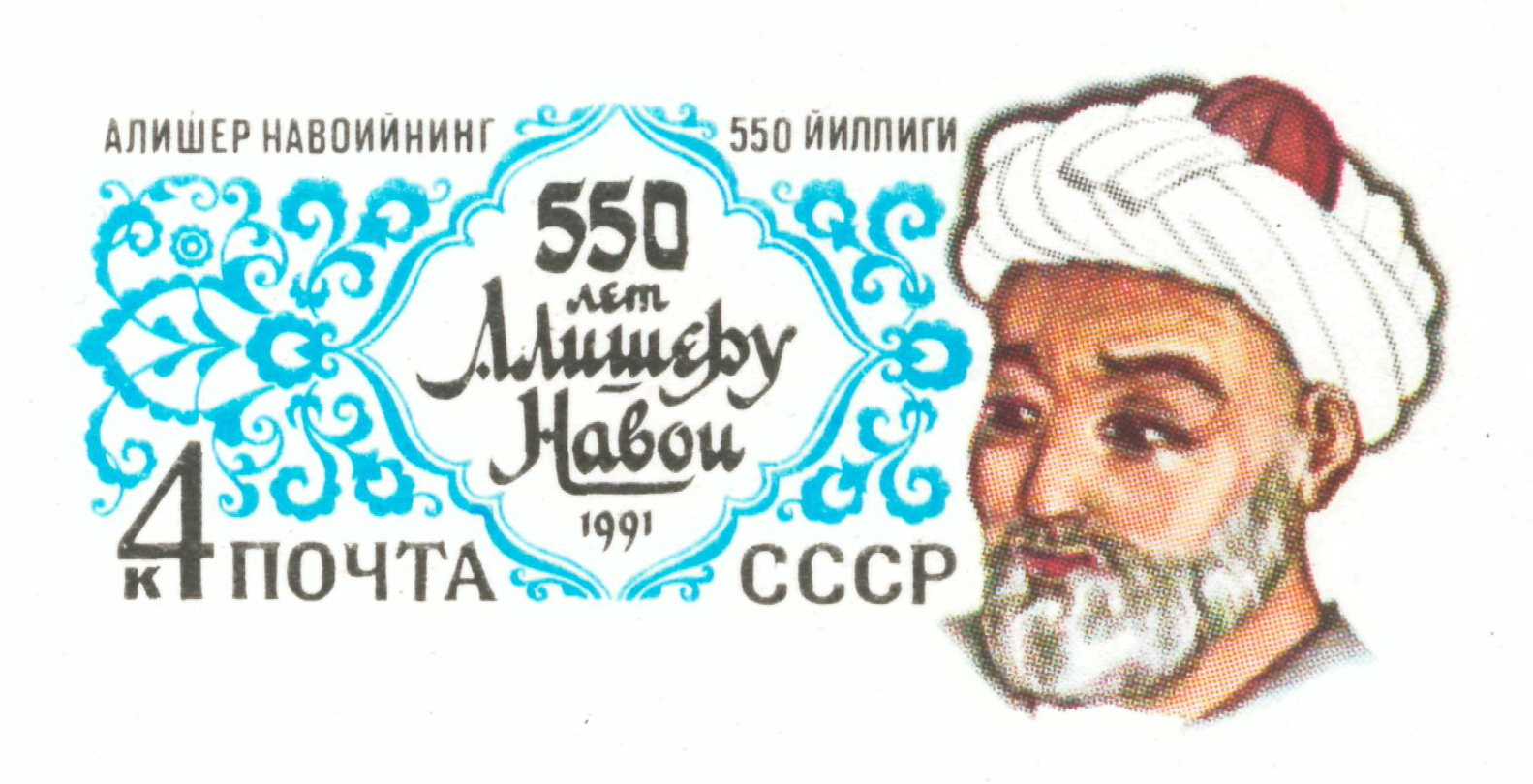 Soviet preprinted (original) stamp of 4 kopecks, 1991. Ali-Shir Nava'i. Detail of a postcard of the Soviet Union (postal stationery).